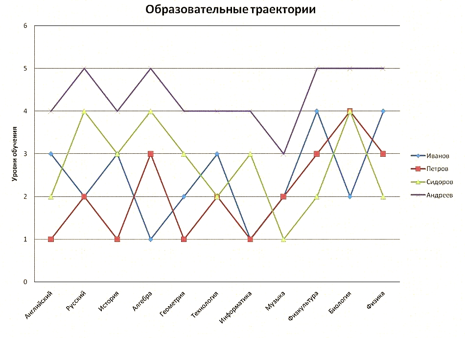 Illustration for the aricle Level Teaching Technology